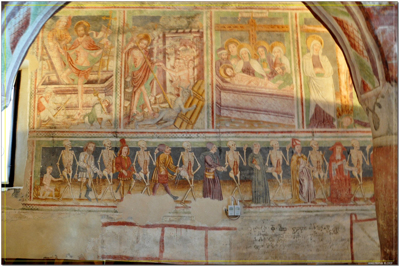 Dreifaltigkeitskirche - Der Totentanz-Fresko des istrischen Malers Johannes aus Kastav (1490) It is best known for its church with a Danse Macabre fresco. The church itsef is dedicated to The Holy Trinity and belongs to the Predloka Parish. It is a stone built church, typical of the area, and lies on a small hill above the village, inside a walled enclosure 8 metres high. The church was built in the late Romanesque tradition before 1480. The encampment wall, built in the late 15th and early 16th century, is an irregular rectangle with cylindrical towers in exposed corners. The frescos inside the church date to 1490 and are some of the best preserved in Slovenia. They were plastered over and whitewashed and were only re-discovered in 1949 and were carefully restored. The most famous is the 7 metre long sequence known as the Dance of Death on the south wall of the nave, representing people of all walks of life from kings and popes to beggars and babies being led by skeletons towards Death itself. Scenes from the Book of Genesis also decorate the nave, images of the Apostles are painted in niches in the apse, with other saints and prophets as well as a Passion series and the journey and adoration of the Magi.